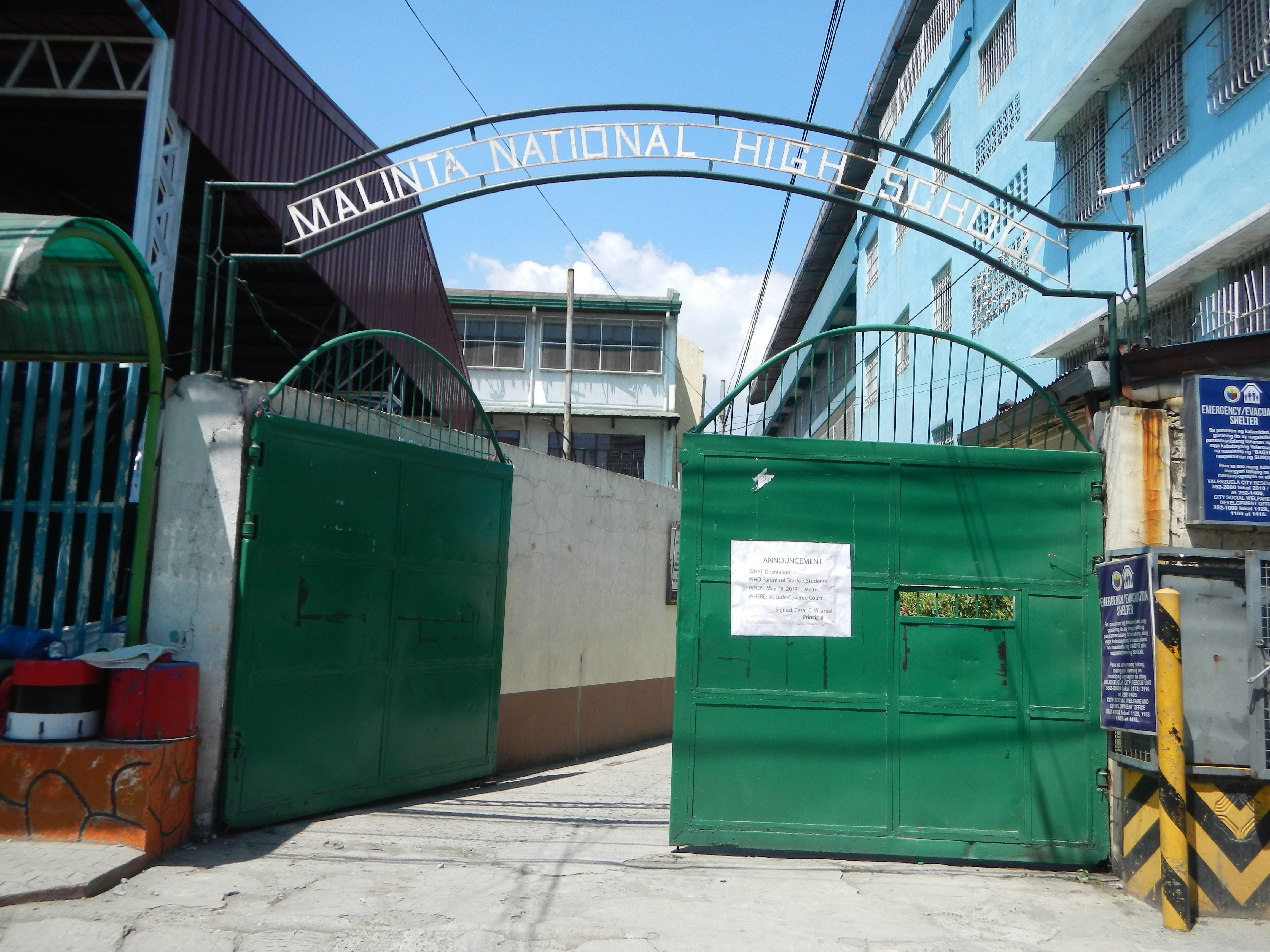 Barangay Malinta, Valenzuela City, Valenzuela, Philippines : MacArthur Higway Welcome stainless steel sign, Centro, Barangay Proper, congested, traffic areas, leading to the Barangay Hall, Chapel and landmarks: a) Malinta National High School beside the b) La Consolacion College of Valenzuela, and in front is the c) Divine Mercy College of Nursing (List of barangays in Valenzuela- Valenzuela).